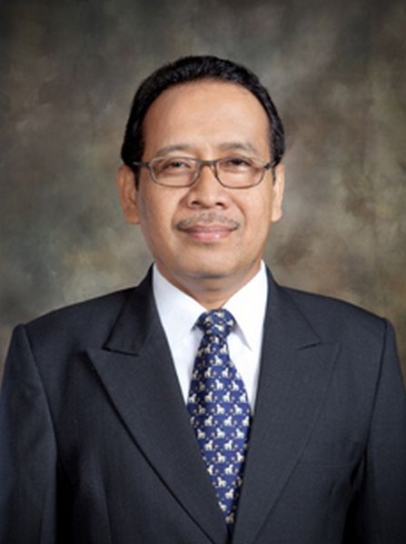 Official portrait of Pratikno, State Secretary Minister of the Indonesian Working Cabinet